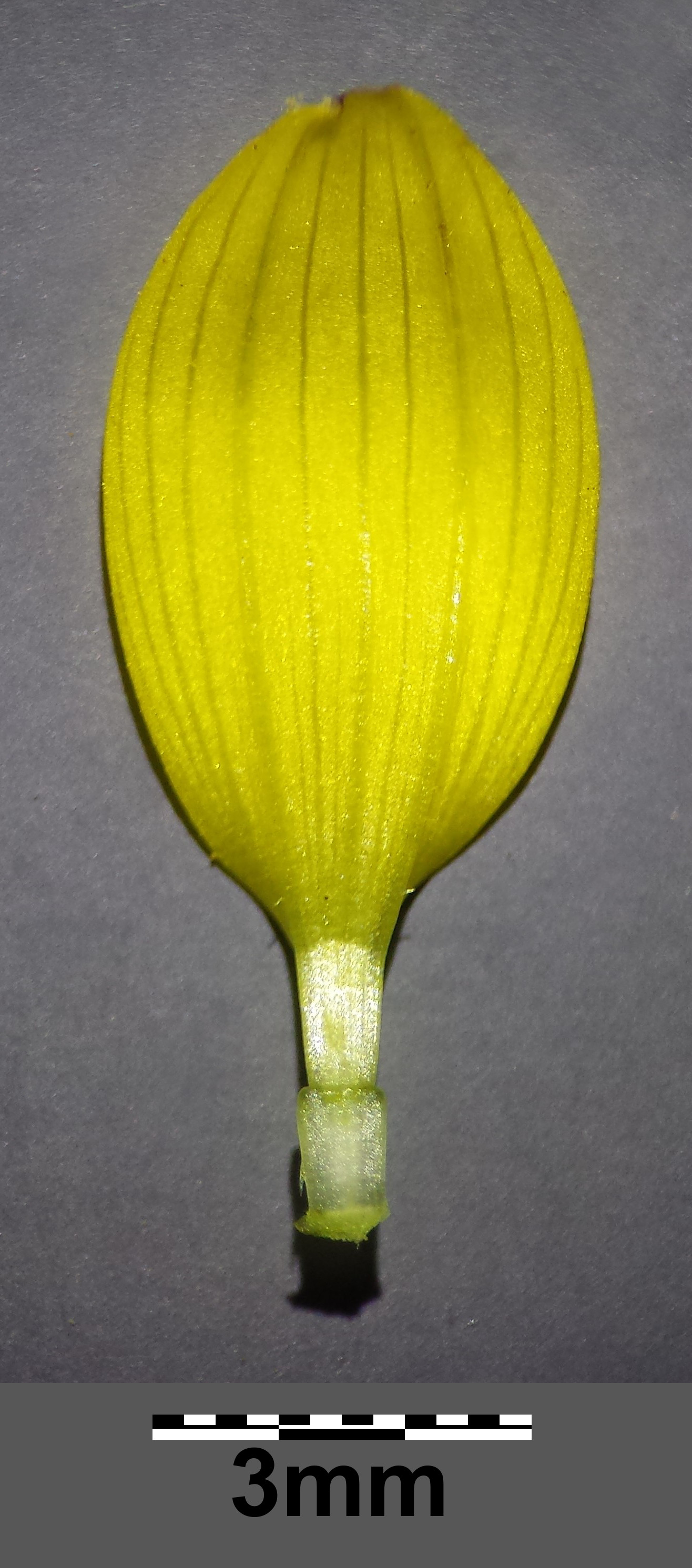 Ligulate floret Taxonym: Bidens cernua ss Fischer et al. EfÖLS 2008 ISBN 978-3-85474-187-9 Location: Žárský rybník, Jihočeský kraj, Czech Republic - ca. 500 m a.s.l. Habitat: shore of a pond